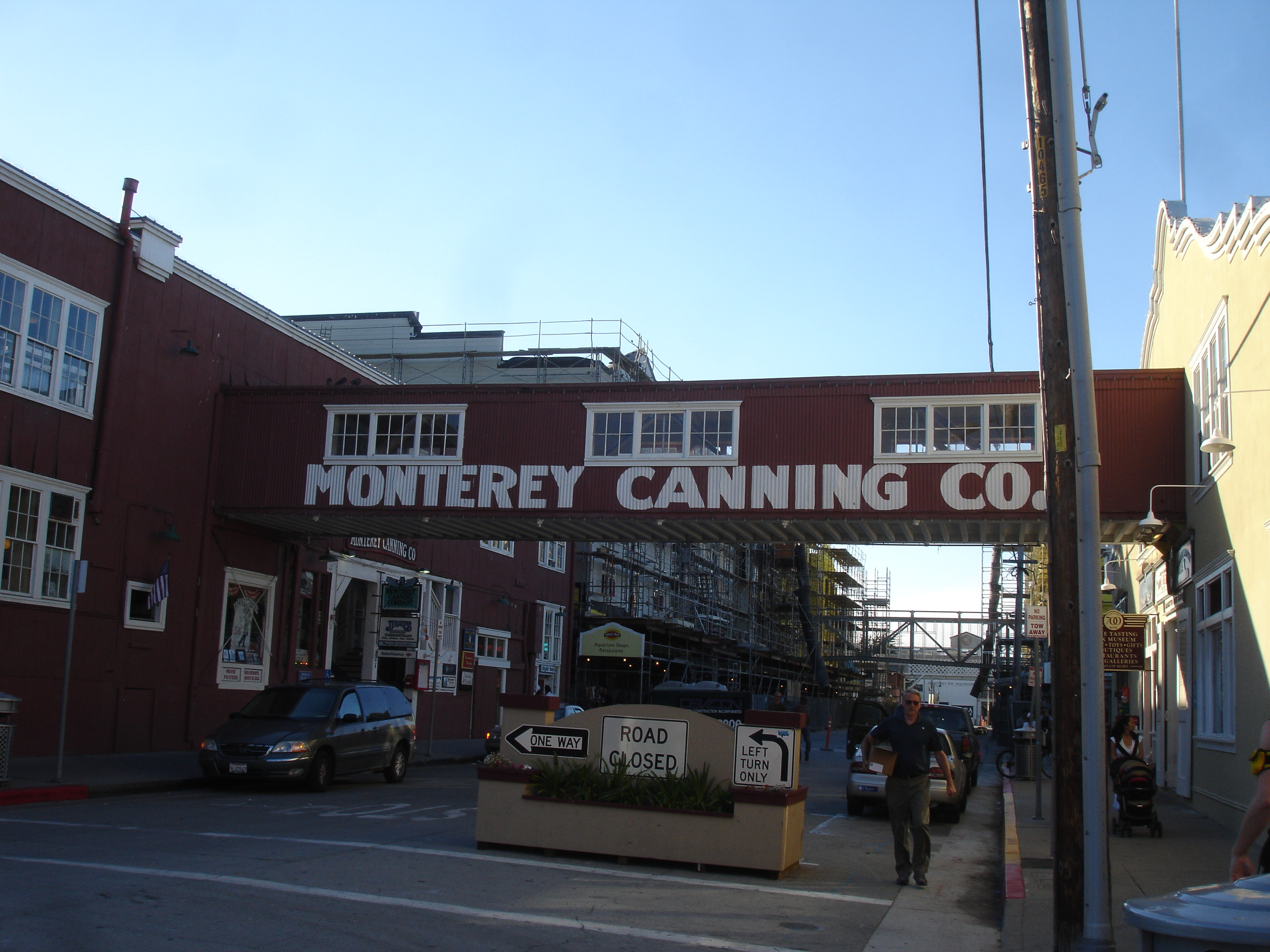 Own Work 2007. Monterey